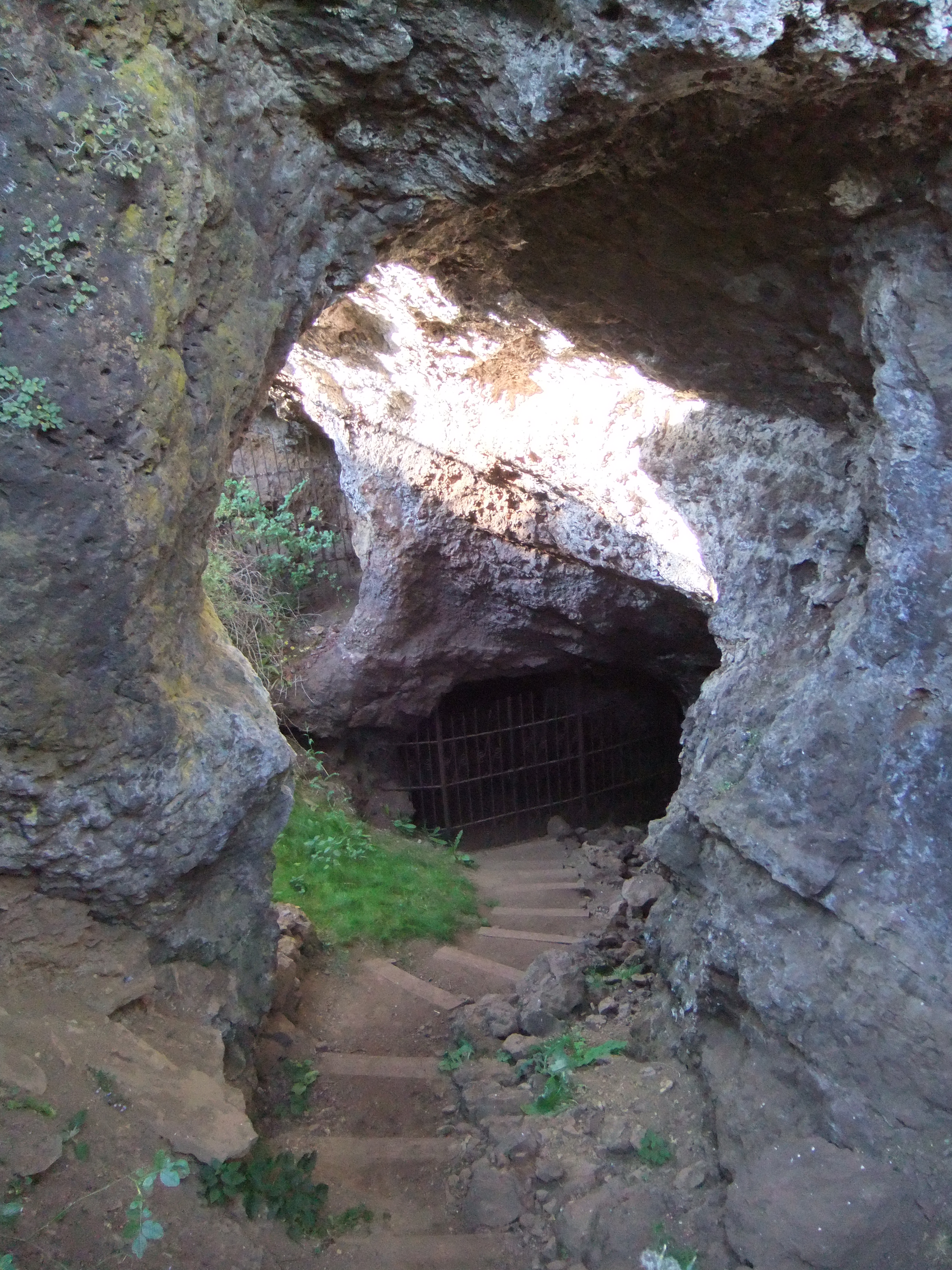 Entrance to the roman mine of Cueva del Hierro in the Spanish province of Cuenca.